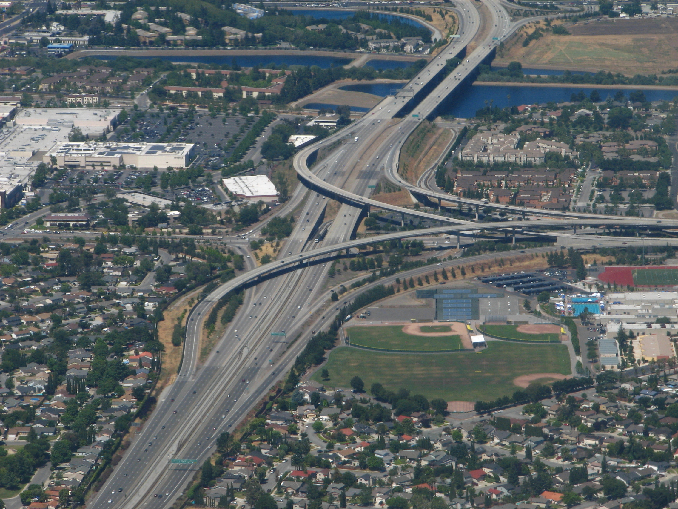 An aerial view of the interchange of State Route 85 (visible as going up-and down in the photograph) and State Route 87 in San Jose, California, United States.